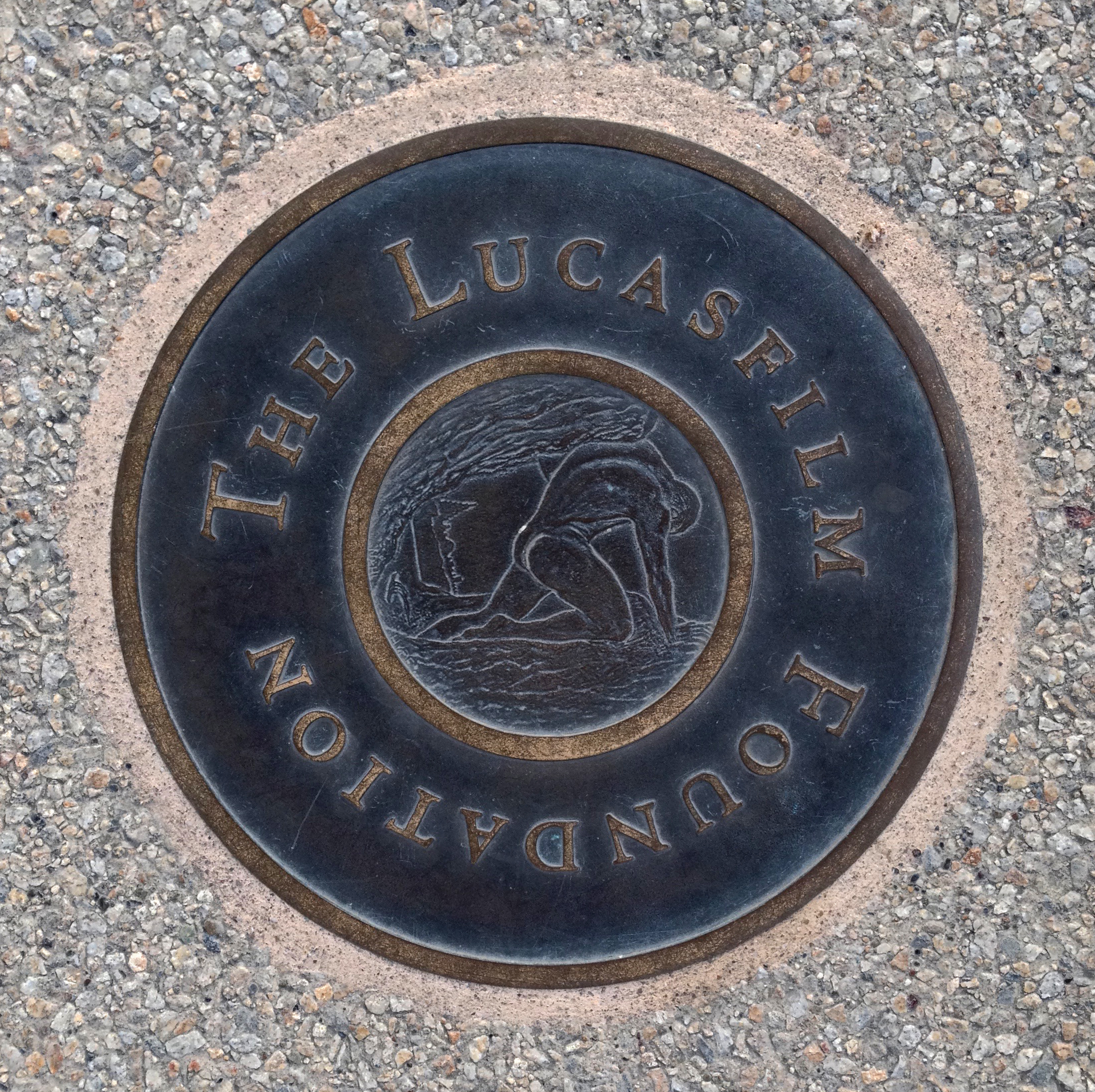 Emblem plaque of the Lucasfilm Foundation at the Palace of Fine Arts, San Francisco